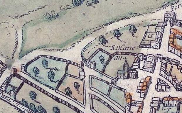 Saint-Marcel church on the plan of Braun and Hogenberg (c.1530, published in 1572, edition of 1593).